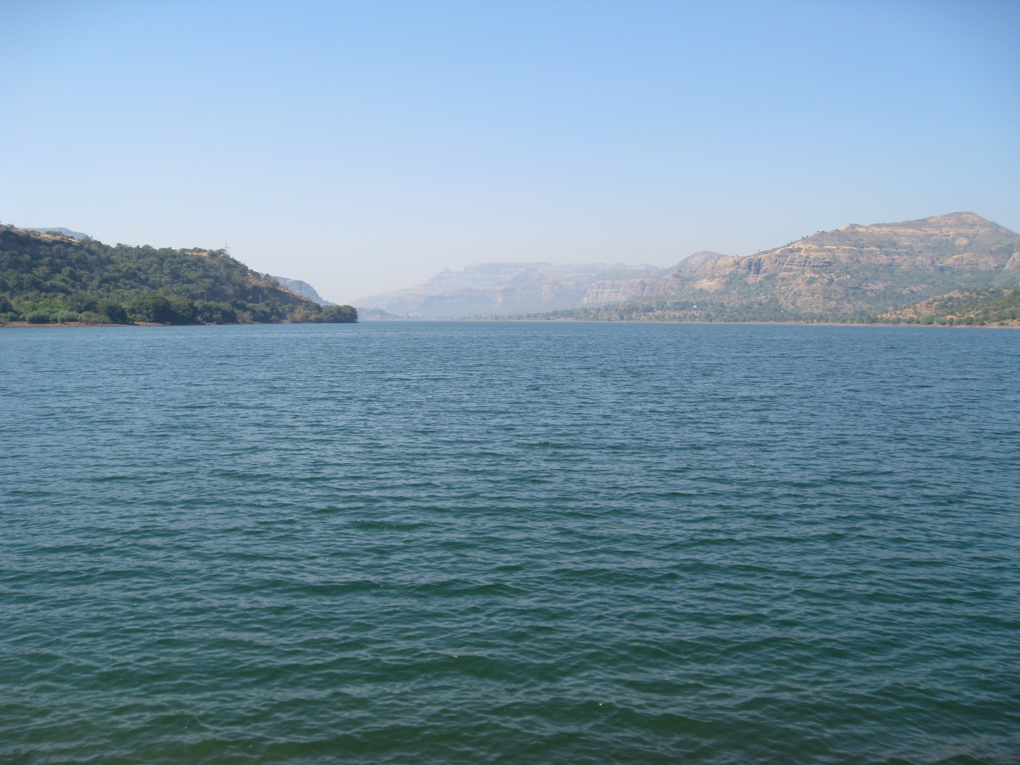 Mulashi Dam near Pune